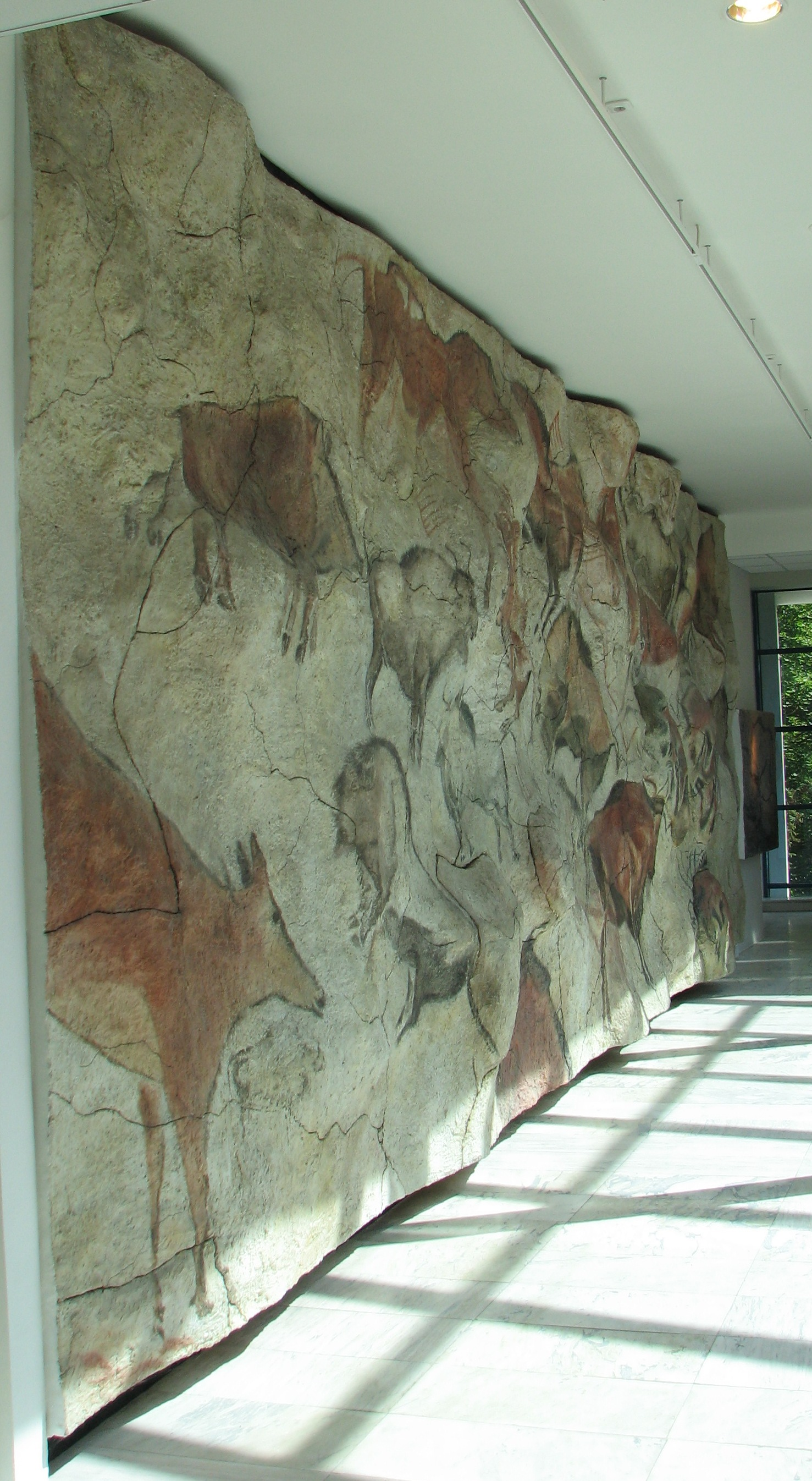 A model of the ceiling of Altamira from left, in the Brno museum Anthropos